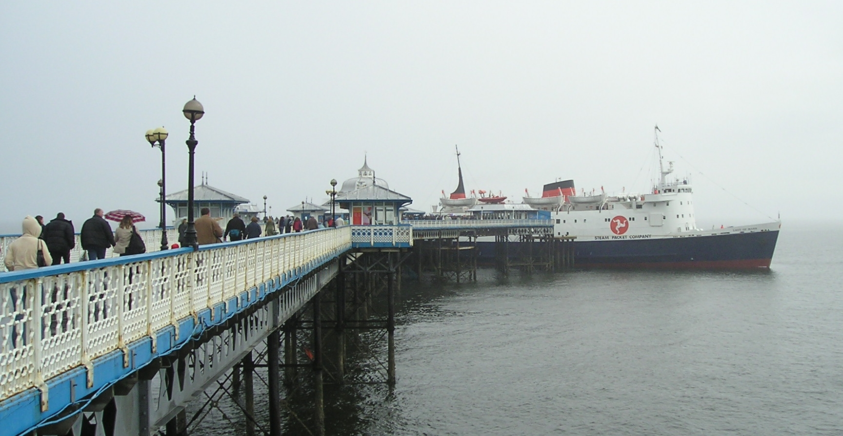 taken by me, Noel Walley